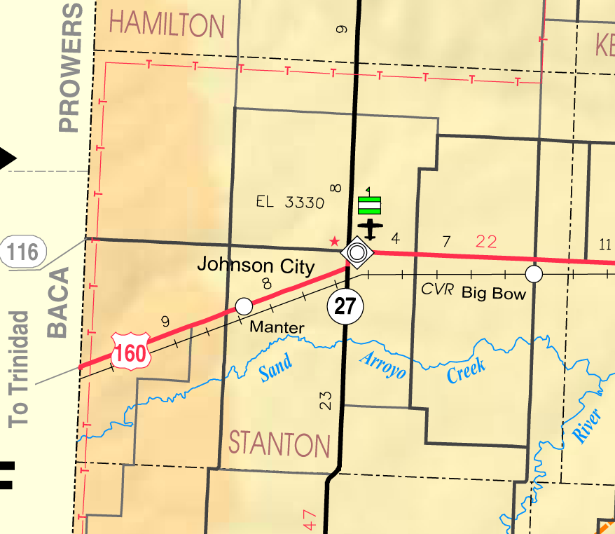 This map of Stanton County, Kansas, USA, is copied at a resolution of 300 pixels/inch from the original PDF file.